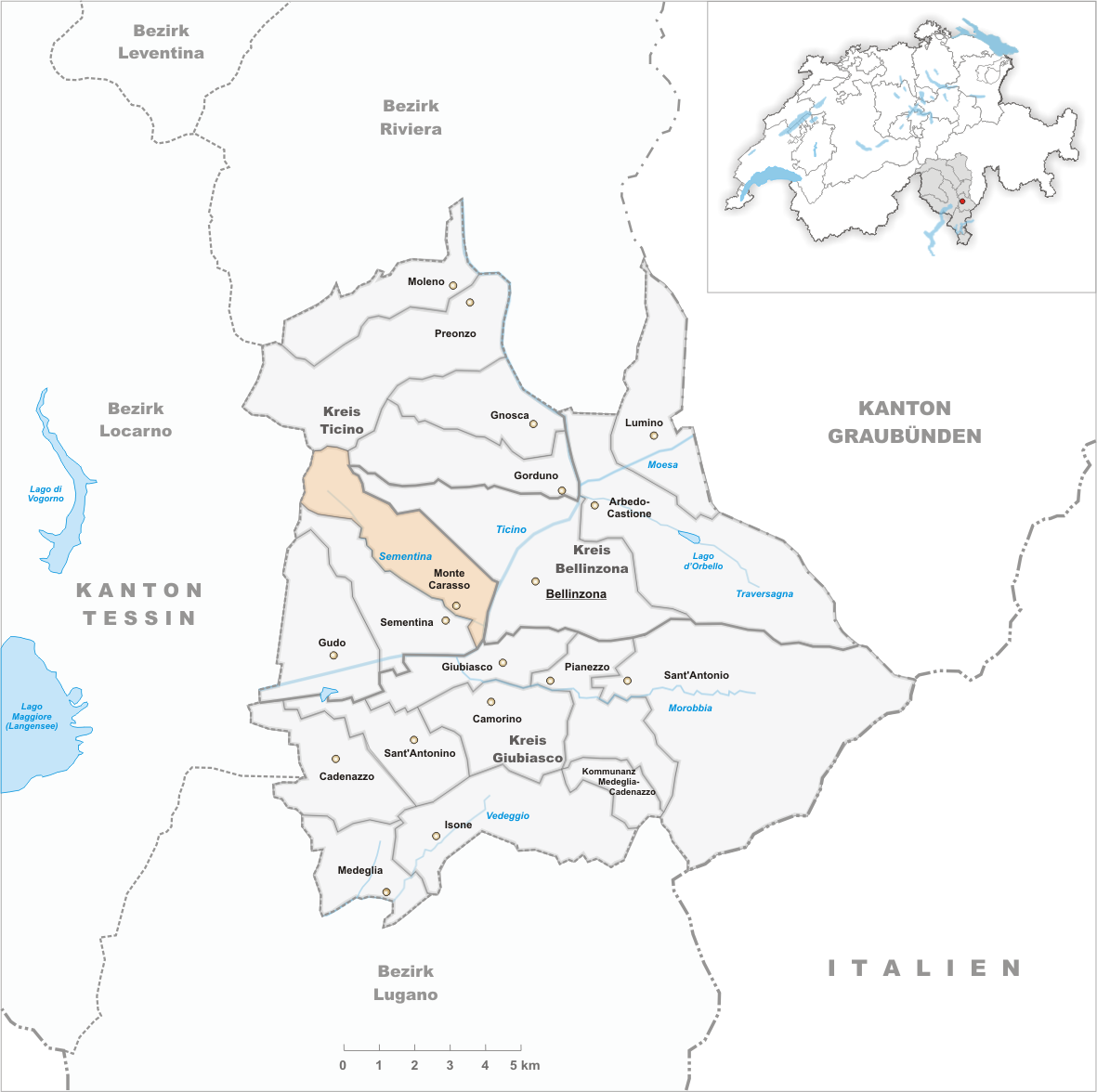 Municipality Monte Carasso